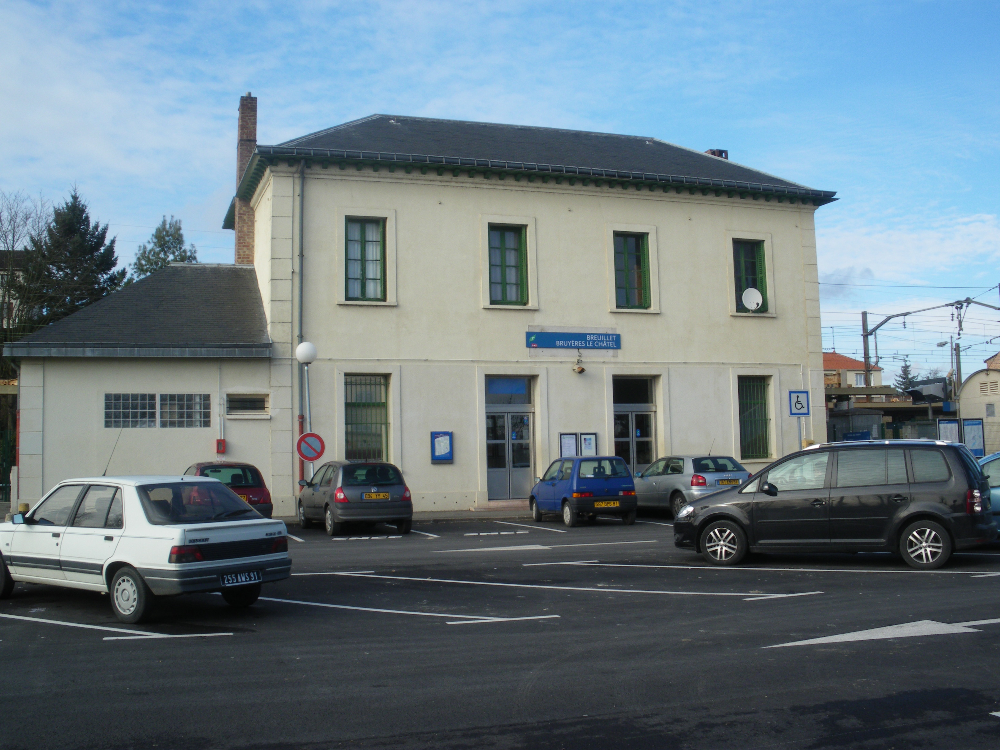 Breuillet-Bruyères Station, Paris RER C ligne, Essonne, France